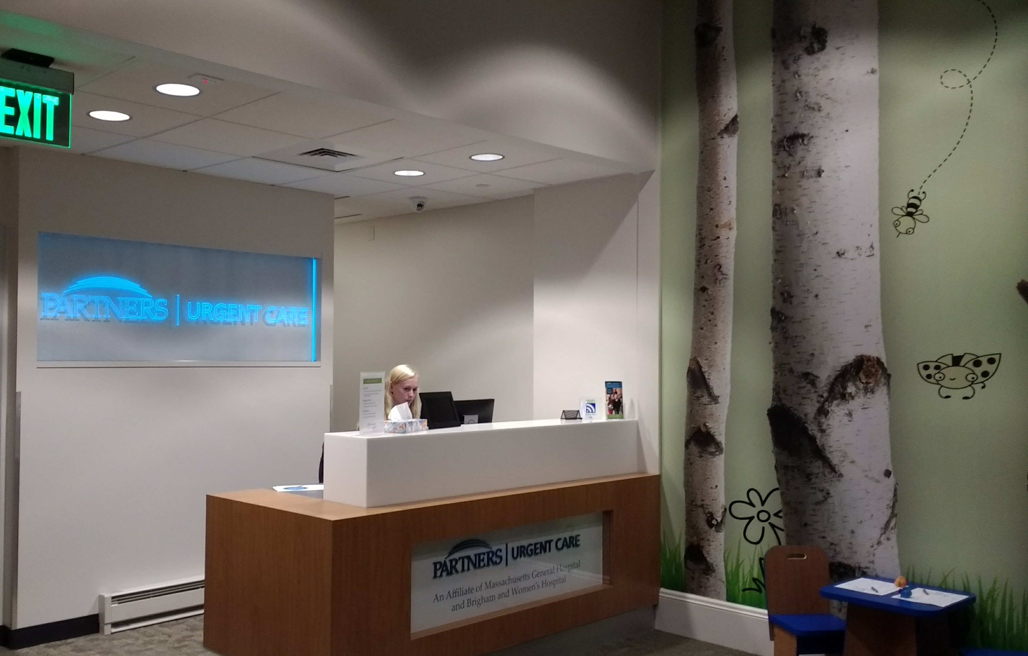 A Partners Urgent Care facility in Boston, Massachusetts